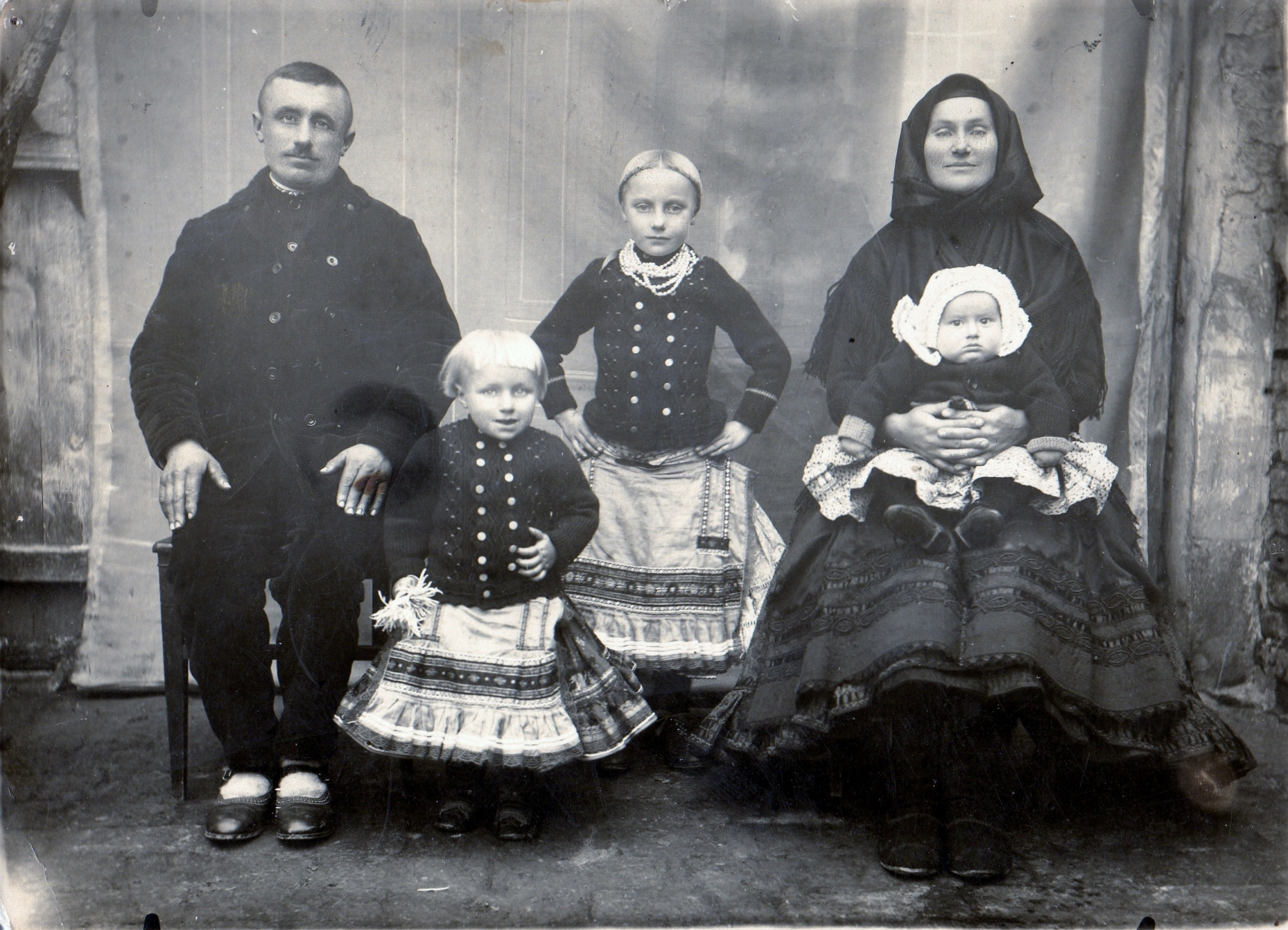 A photograph of a Vojvodinian Slovak family (Selenča, 1920). Inventory number 1652. Srpski (latinica): Fotografija slovačke porodice (Selenča, 1920). Inventarski broj 1652.